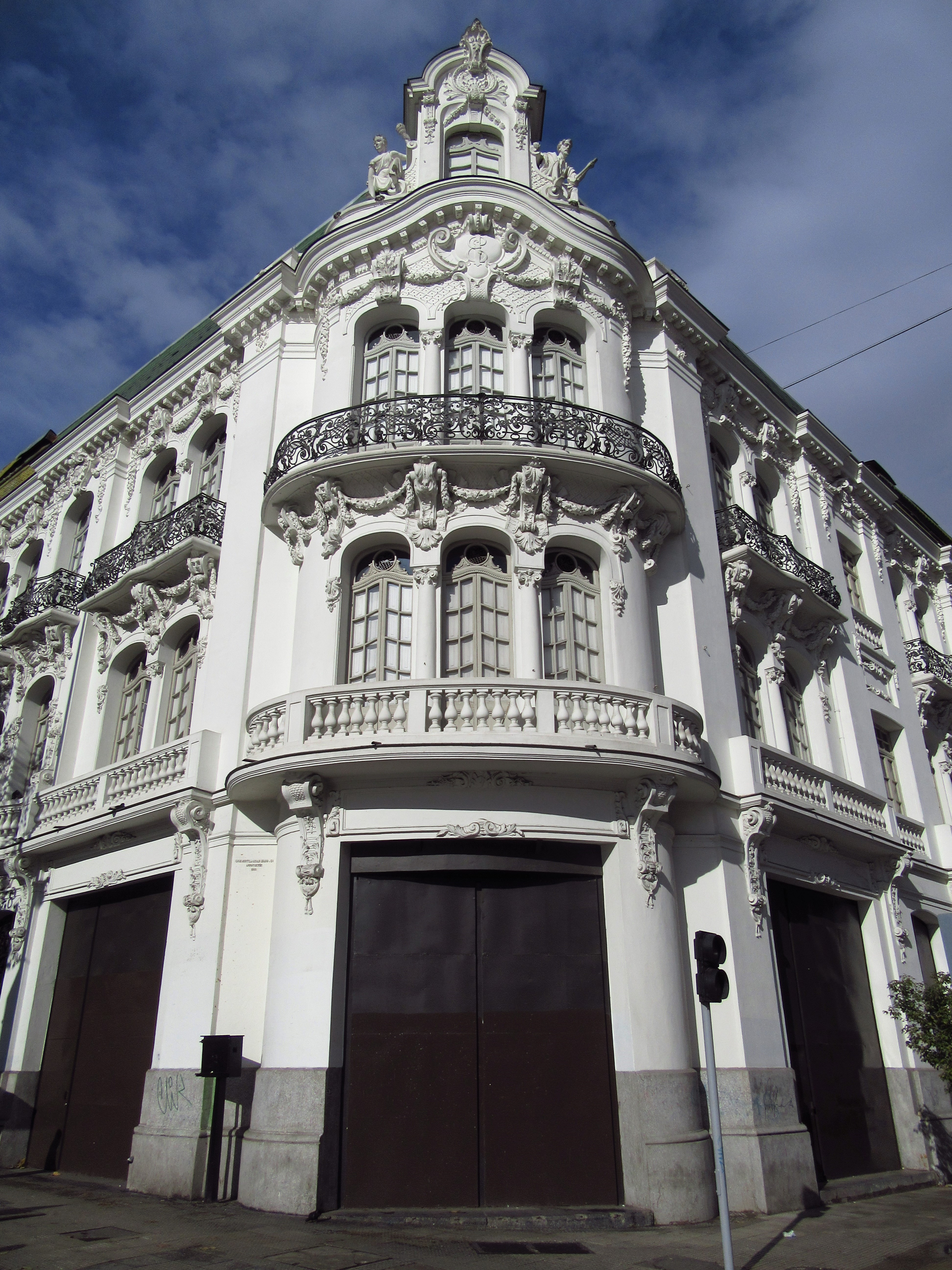 2017 in Santiago de Chile